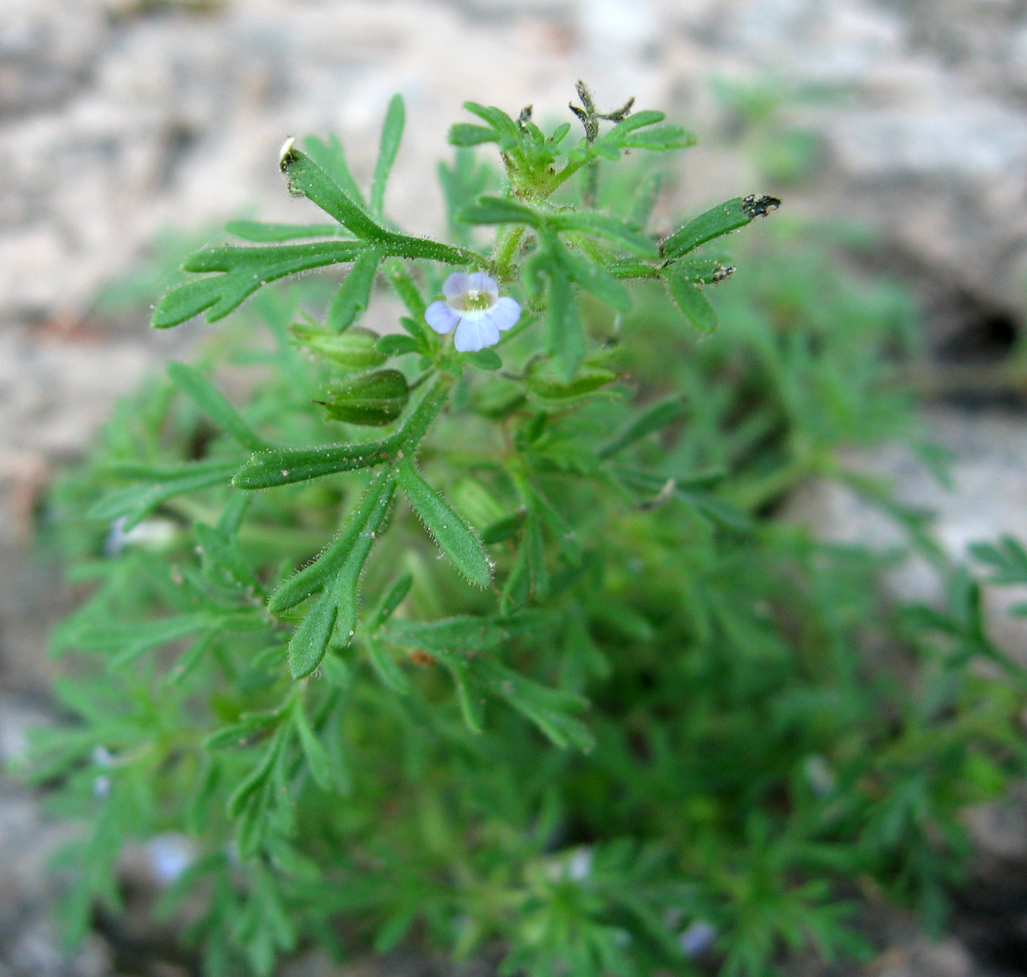 Leucospora multifida, limestone riverscour of the Cumberland River, Montgomery County, Tennessee.